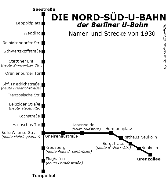 Map of the former "North South Underground Line" in Berlin, stations and names of 1930